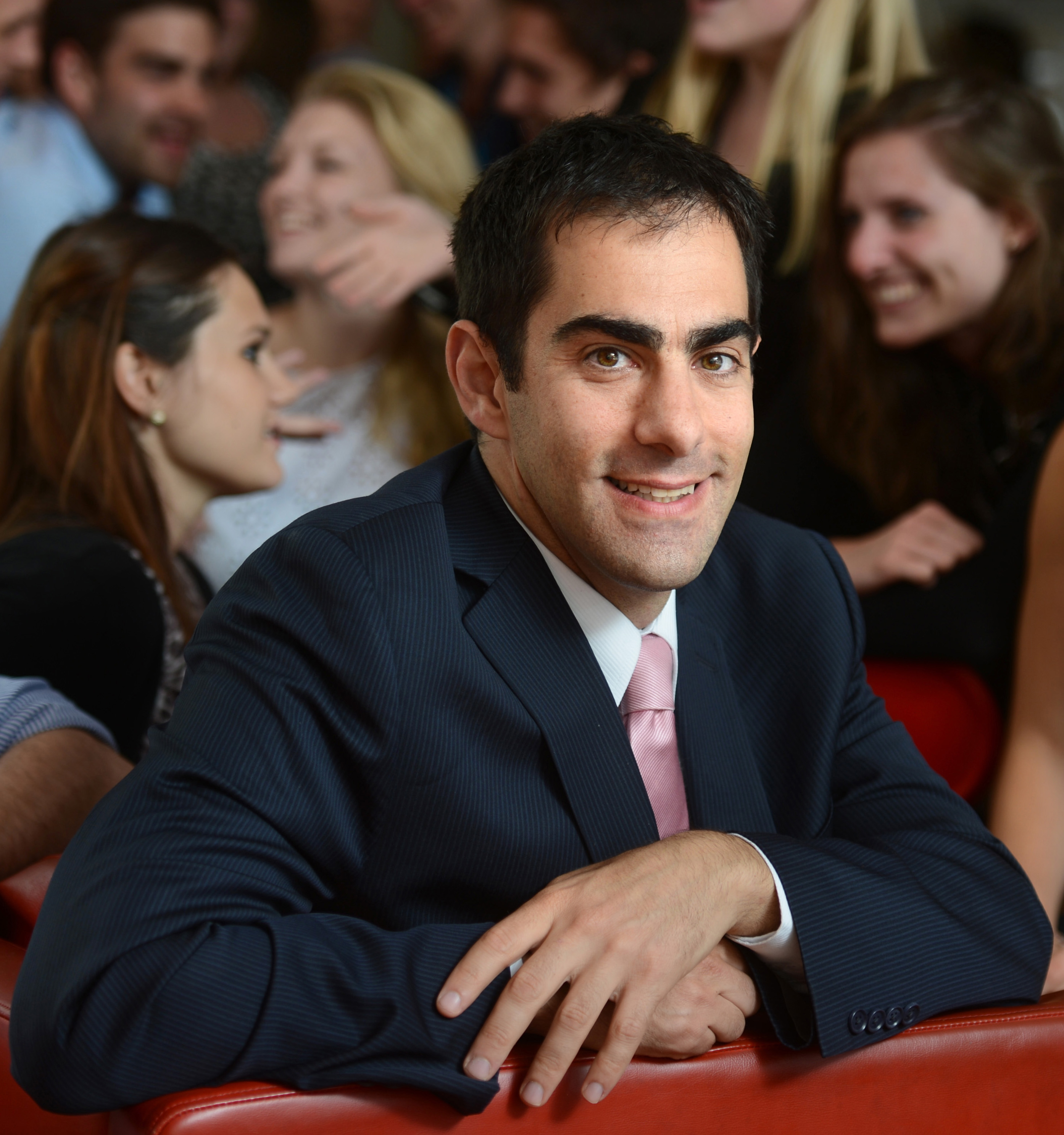 Founder and Chief Executive Officer of Teach First